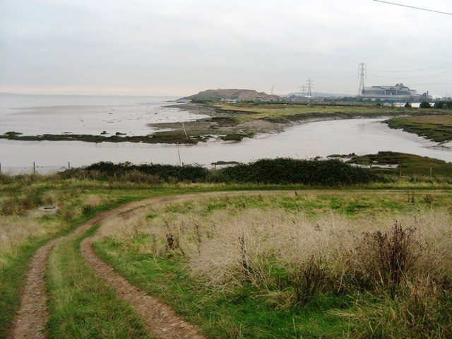 Afon Rhymni meets the River Severn The last spit of land before the Afon Rhymni (Rhymney River) meets the mouth of the Severn at Cardiff. This photo was taken from within the Lamby Way landfill complex.